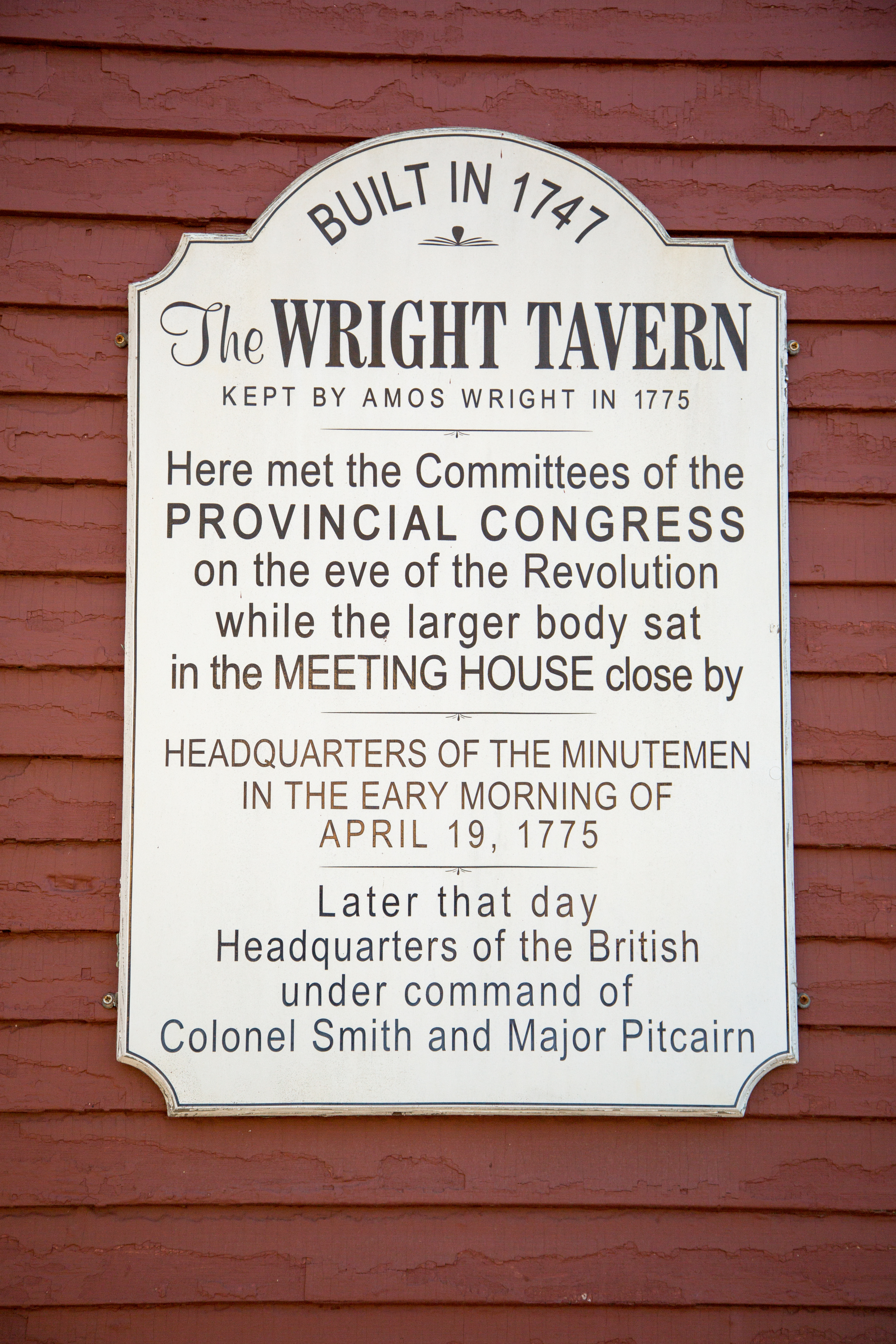 Wright Tavern in Concord, Mass